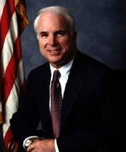 Official photo